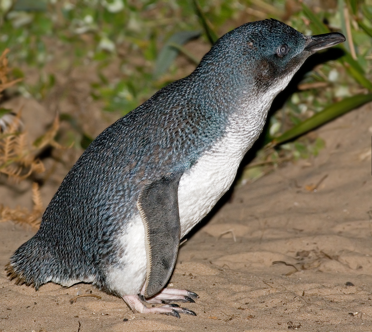 Little Penguin (Eudyptula minor), also known as the Fairy Penguin, Bruny Island, Tasmania, Australia Camera data Camera Canon EOS 400D Lens Canon EF 400mm f5.6L Flash Fresnel Extender Focal length 400 mm Aperture f/10 Exposure time 1/200 s Sensivity ISO 400